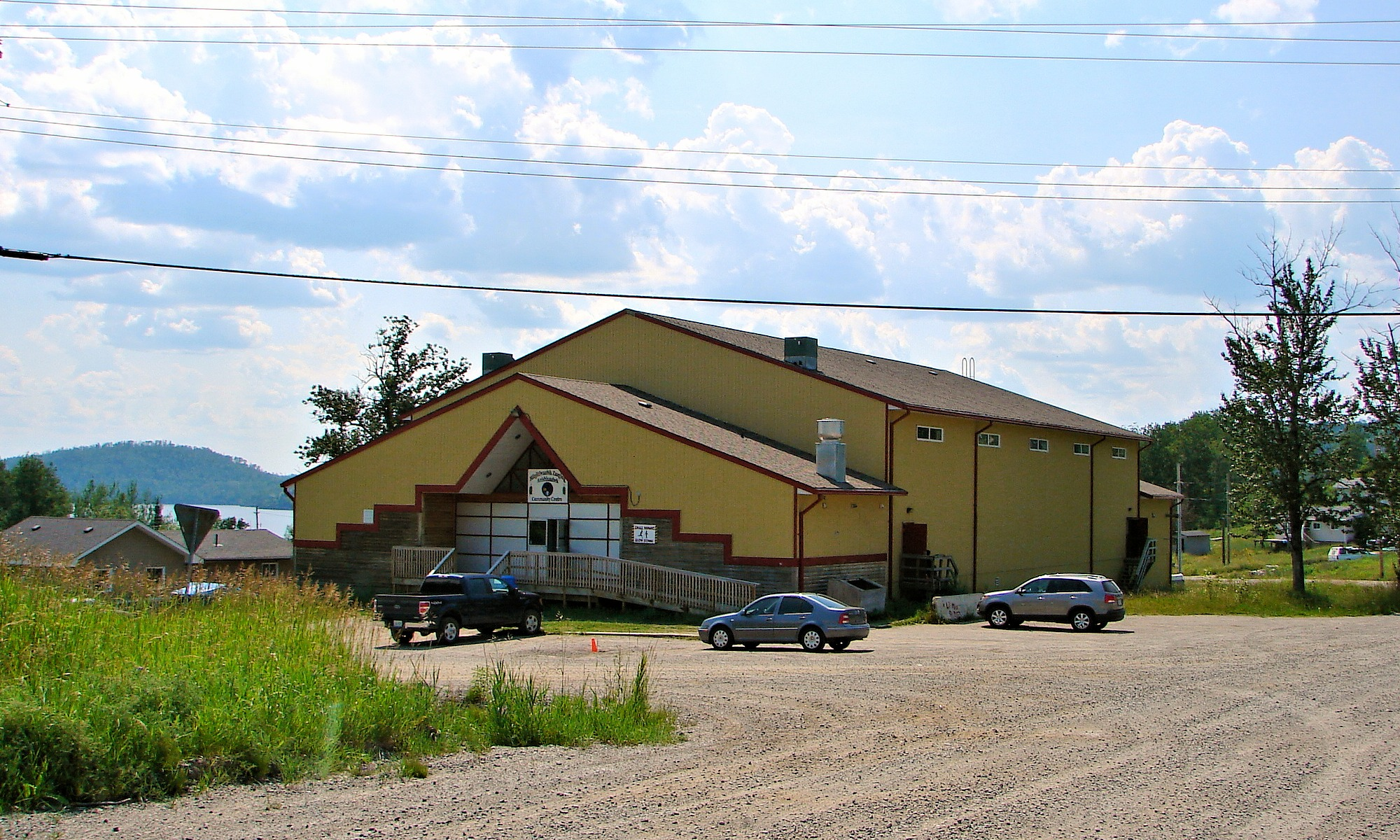 Rocky Bay 1 Reserve of the Biinjitiwabik Zaaging Anishnabek First Nation, Ontario, Canada